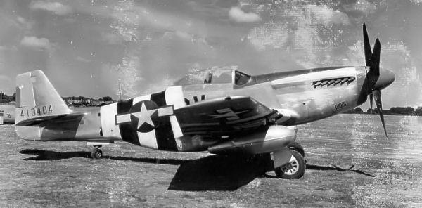 P-51D-5-NA Mustang Serial 44-13404 of the 368th Fighter Squadron, 359th Fighter Group, painted in D-Day Invasion markings, at East Wretham Airfield, England.